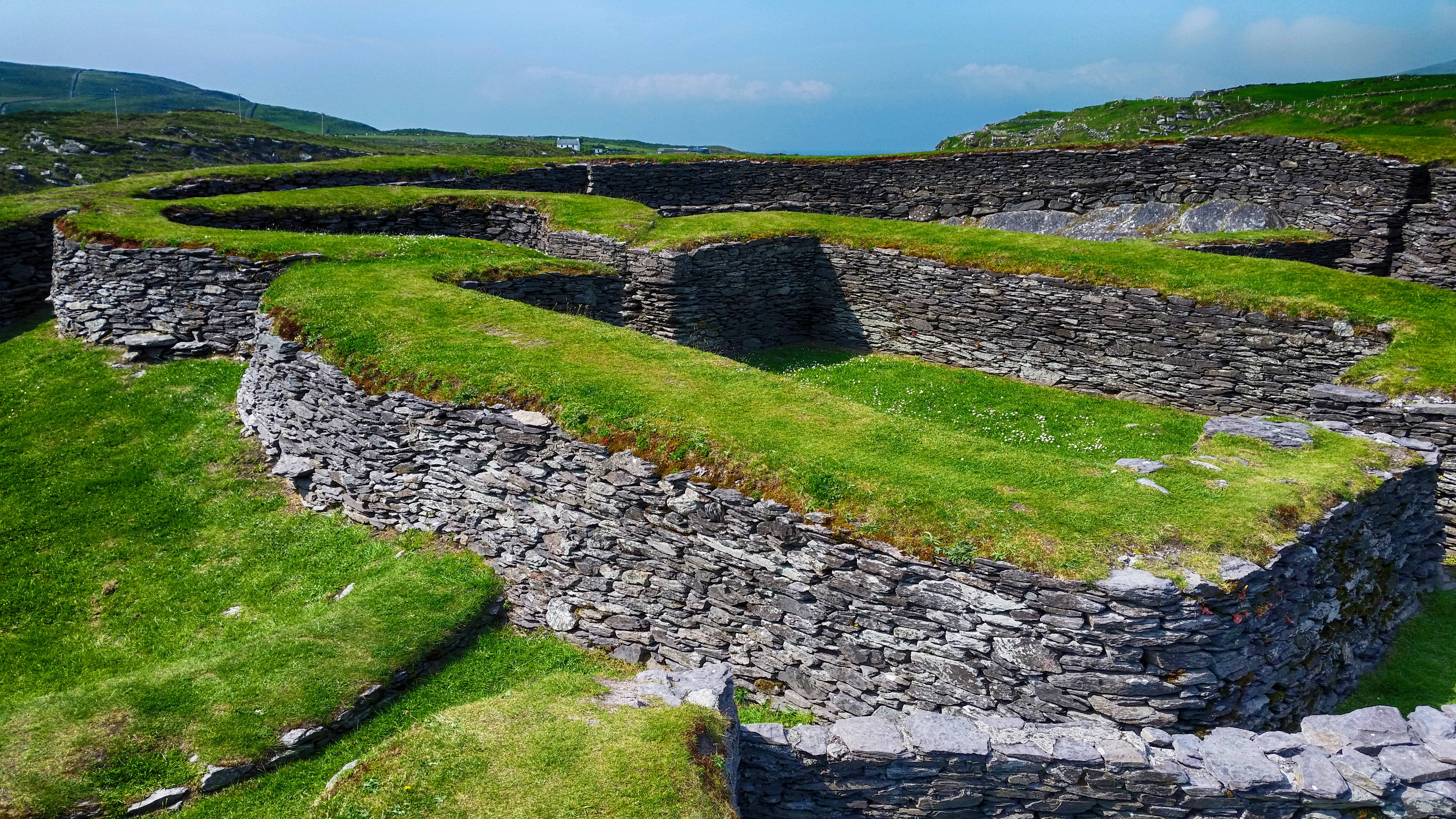 Emlagh, Co. Kerry, Ireland Leacanabuaile Cashel